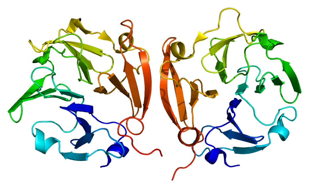 Structure of the MMP9 protein. Based on PyMOL rendering of PDB 1itv.